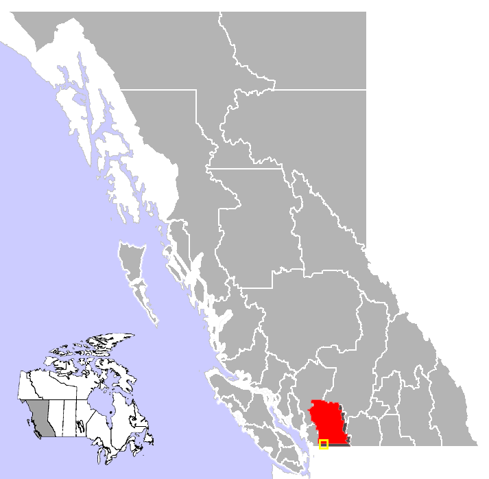 Location of Abbotsford, Fraser Valley District, BC